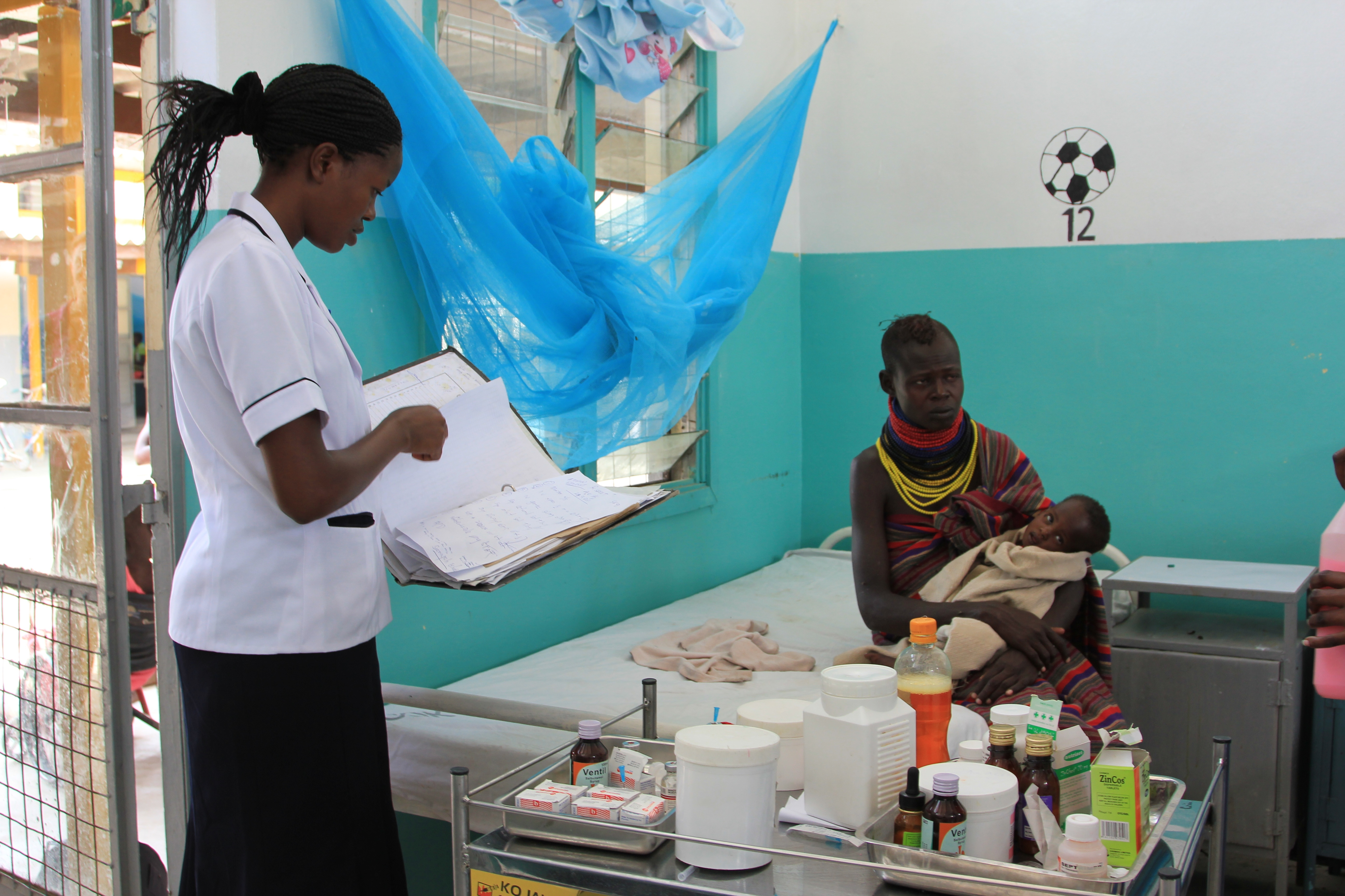 A mother and child in the pediatric ward in Lodwar District Hospital are seen by a nurse. The hospital was refurbished with support from the UK, and UK aid is also helping UNICEF to supply treatment for children suffering from acute malnutrition. Picture: Marisol Grandon/Department for International Development Terms of use This image is posted under a Creative Commons - Attribution Licence, in accordance with the Open Government Licence. You are free to embed, download or otherwise re-use it, as long as you credit the source as 'Marisol Grandon/Department for International Development'.